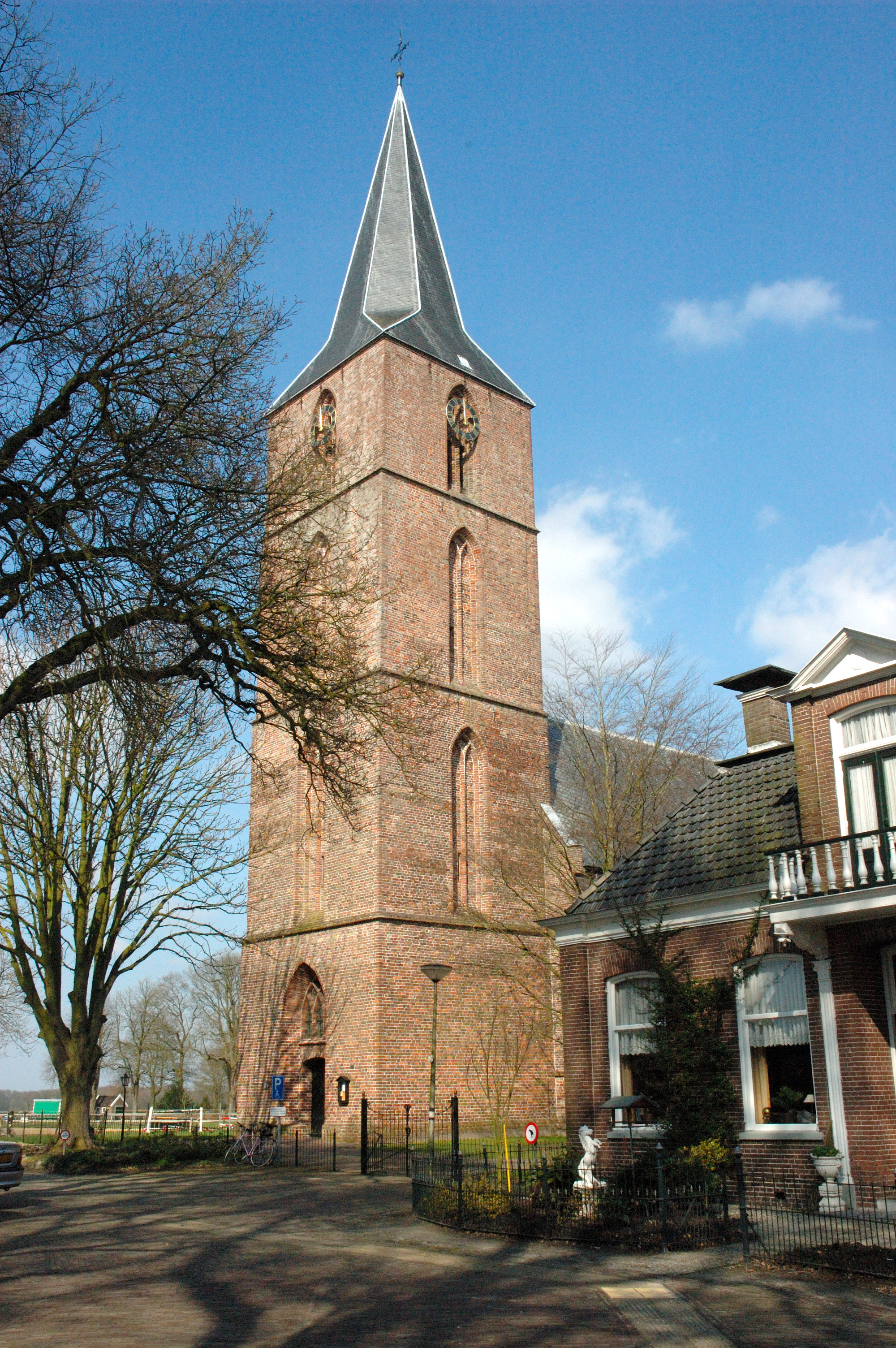 Gothic church, Rolde, Drenthe, The Netherlands